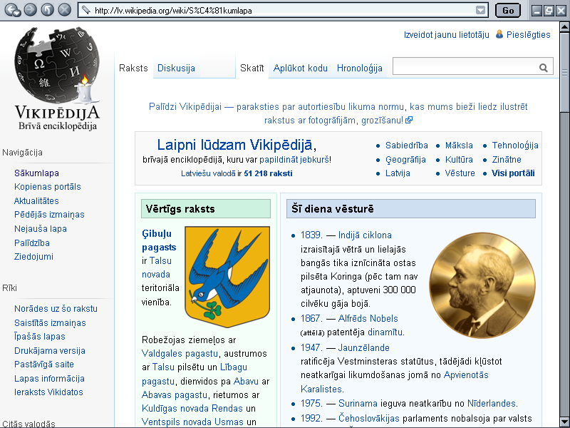 Dark Wikipedia logo of the Latvian Wikipedia to commemorate the people who died in the Riga supermarket roof collapse. Major Latvian and Latvian-language webpages changed their designs to commemorate the event. Screenshot shows SeaMonkey 1.1.19 in Windows XP SP3 showing the Latvian Wikipedia. Window decorations are not seen, because the browser window is in fullscreen mode. Font smoothing has been turned off.